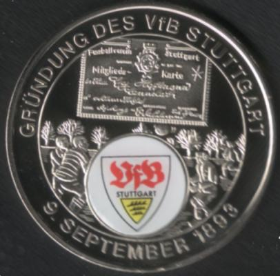 Coin to honor the foundation of the German sport club VfB Stuttgart